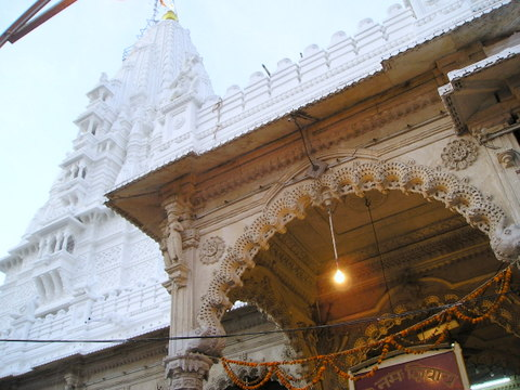 Babulnath temple, Mumbai